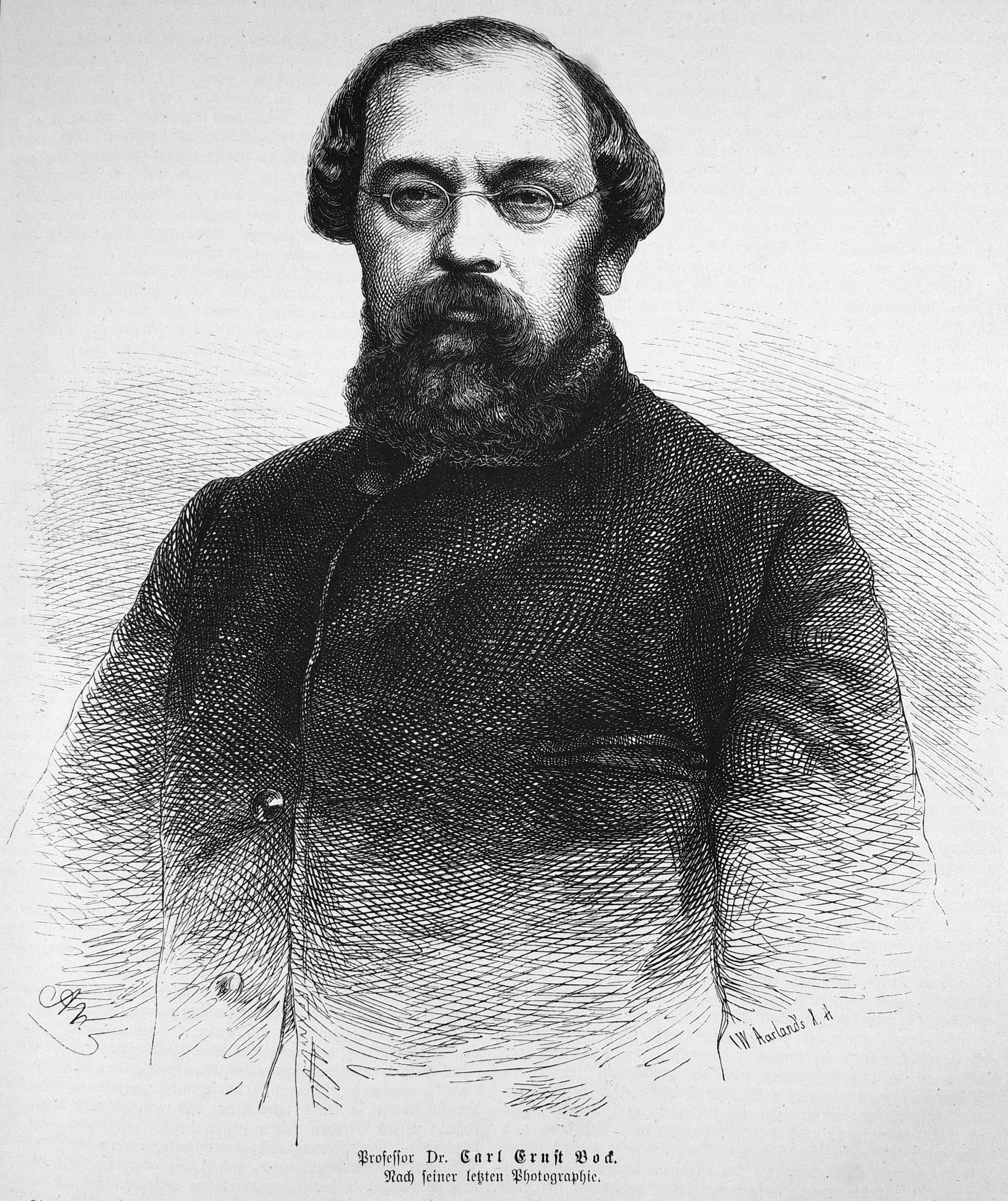 caption: "Professor Dr. Carl Ernst Bock. Nach seiner letzten Photographie."